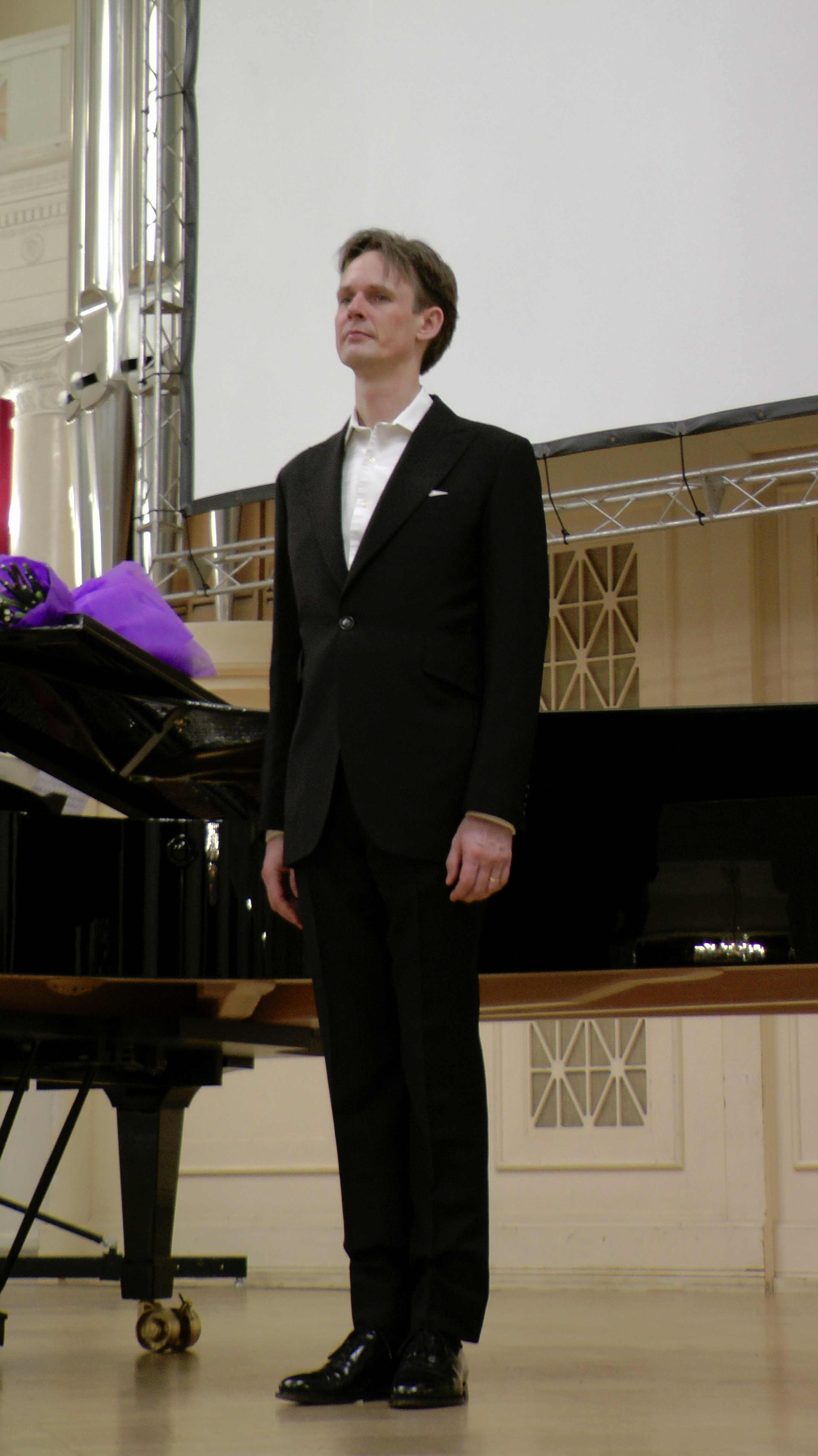 Ian Bostridge in the Grand Hall of the Saint-Petersburg Philharmonia, December 21, 2014.